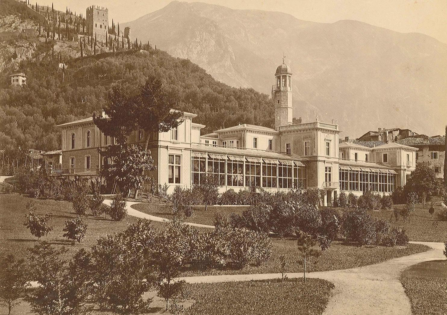 Villa of Archduke Albrecht of Austria at Arco, Trentino, ca. 1880